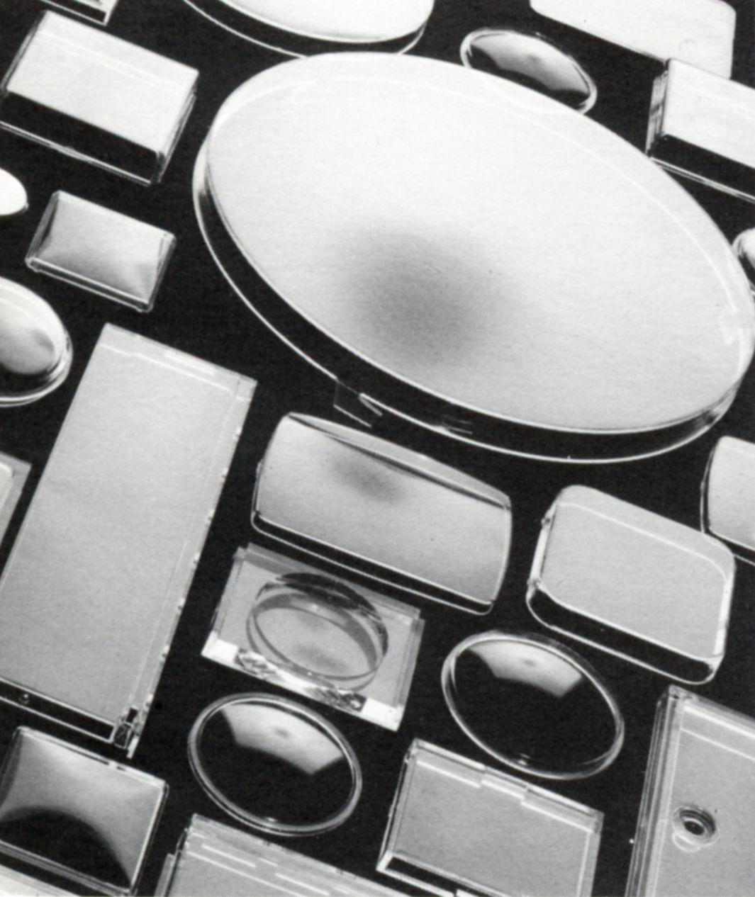 Watchglass